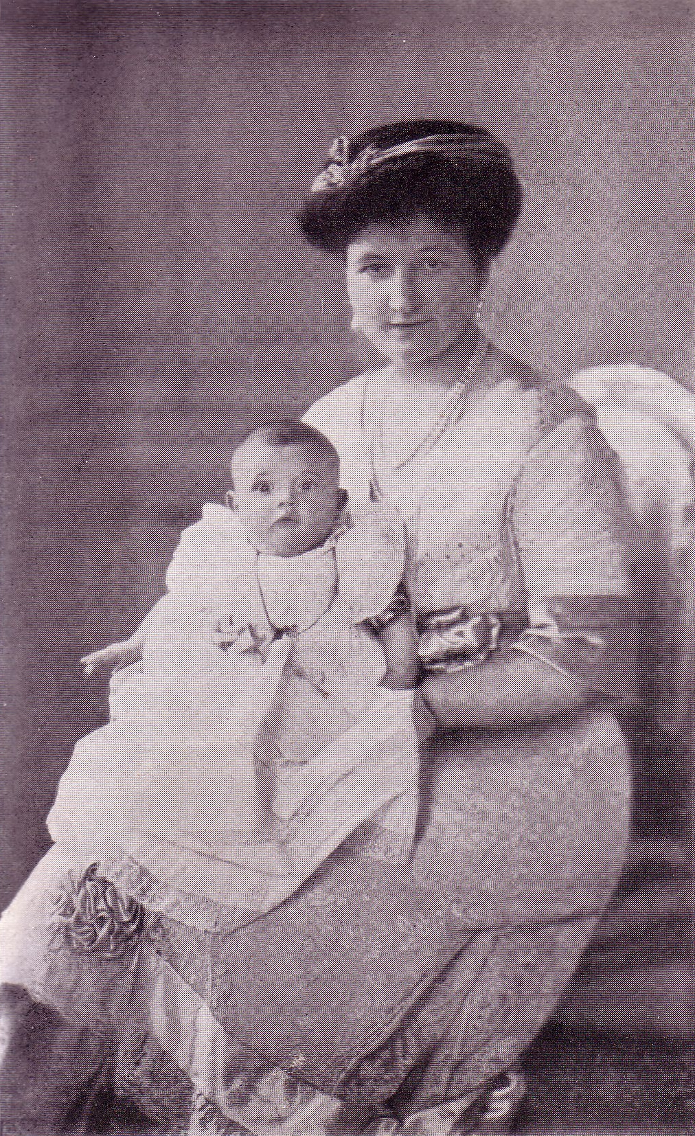 Countess Hedwig von Szapáry (née Prinzessin zu Windisch-Grätz, wife of Friedrich Graf Szapáry von Muraszombath, Széchysziget und Szapár; 1878–1918) with daughter. // «Stolitsa i Usad'ba» Magazine, 1914, №?, p.13. «Austrian Embassy in St Petersburg» article.